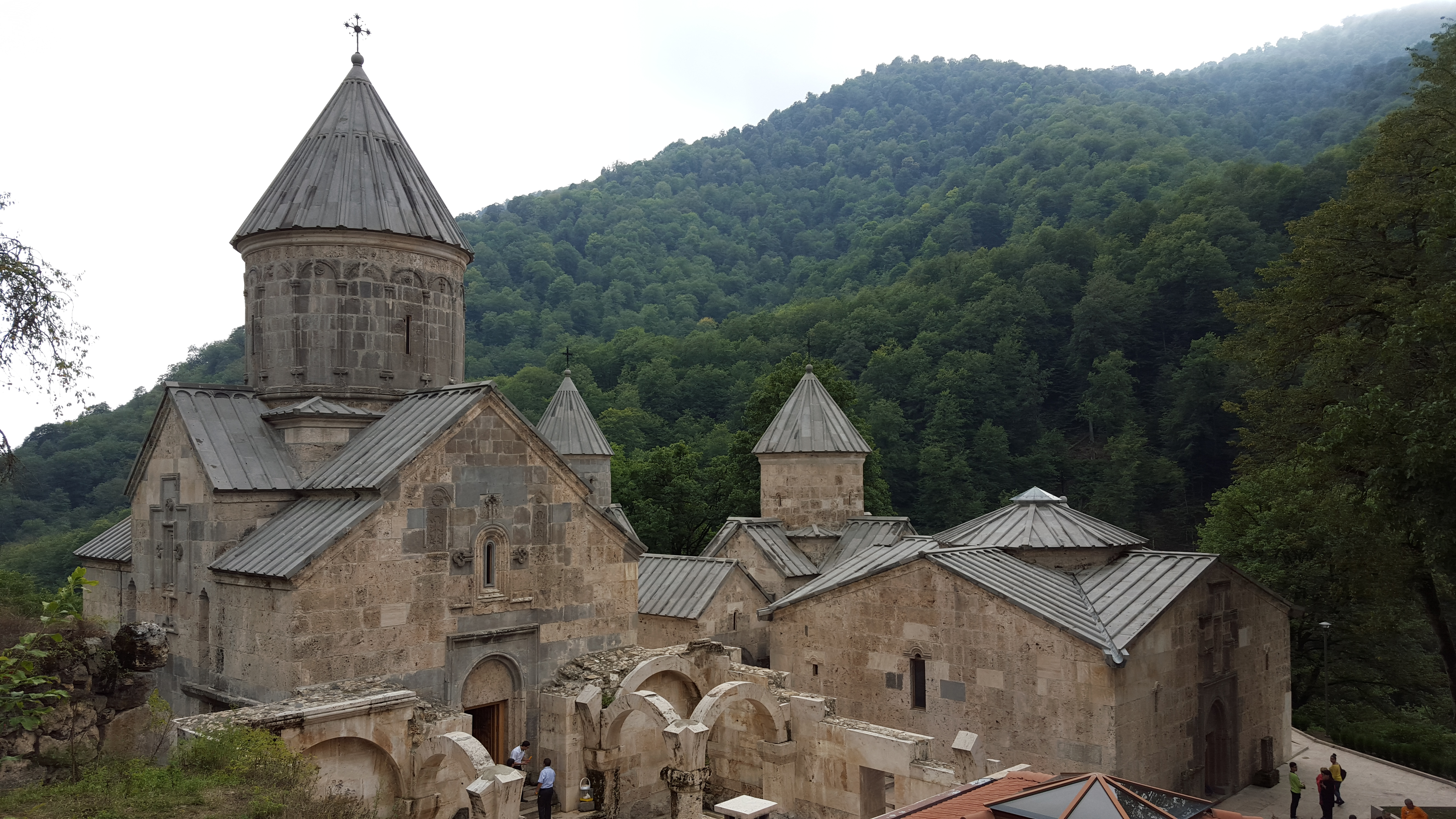 Haghartsin